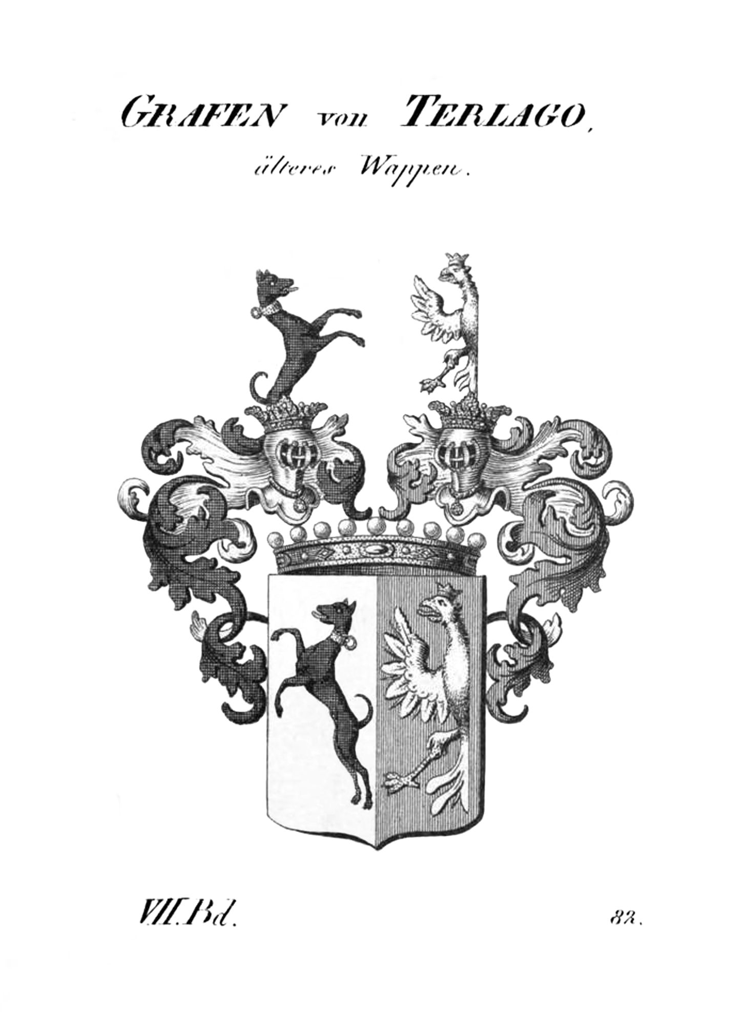 Coat of arms of Terlago (Counts)